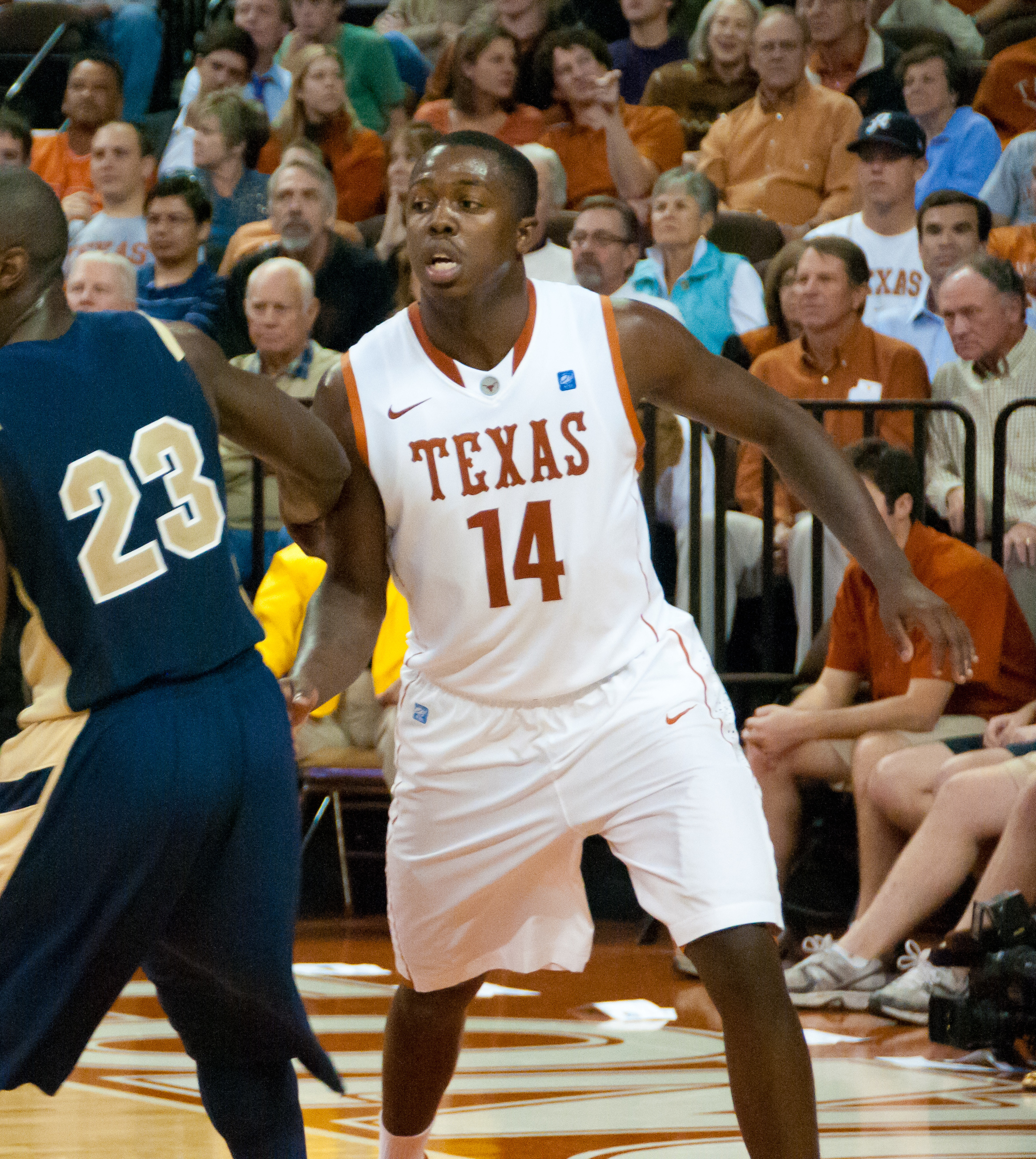 J'Covan Brown of University of Texas. Texas Longhorns vs Navy Midshipmen, Coaches vs Cancer Classic, November 8, 2010, Frank Erwin Center, Austin, Texas